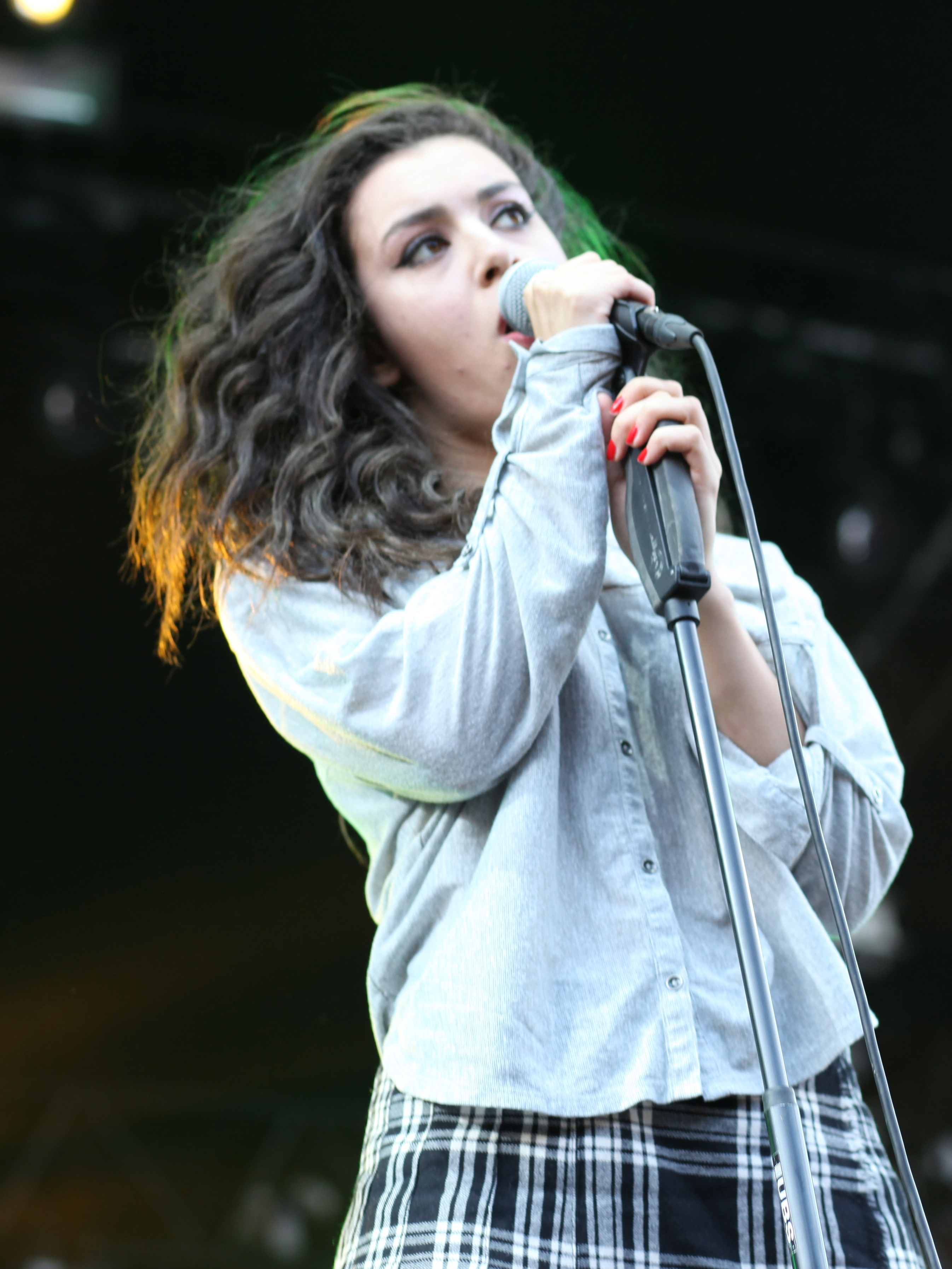 Charli XCX at 2013 Positivus